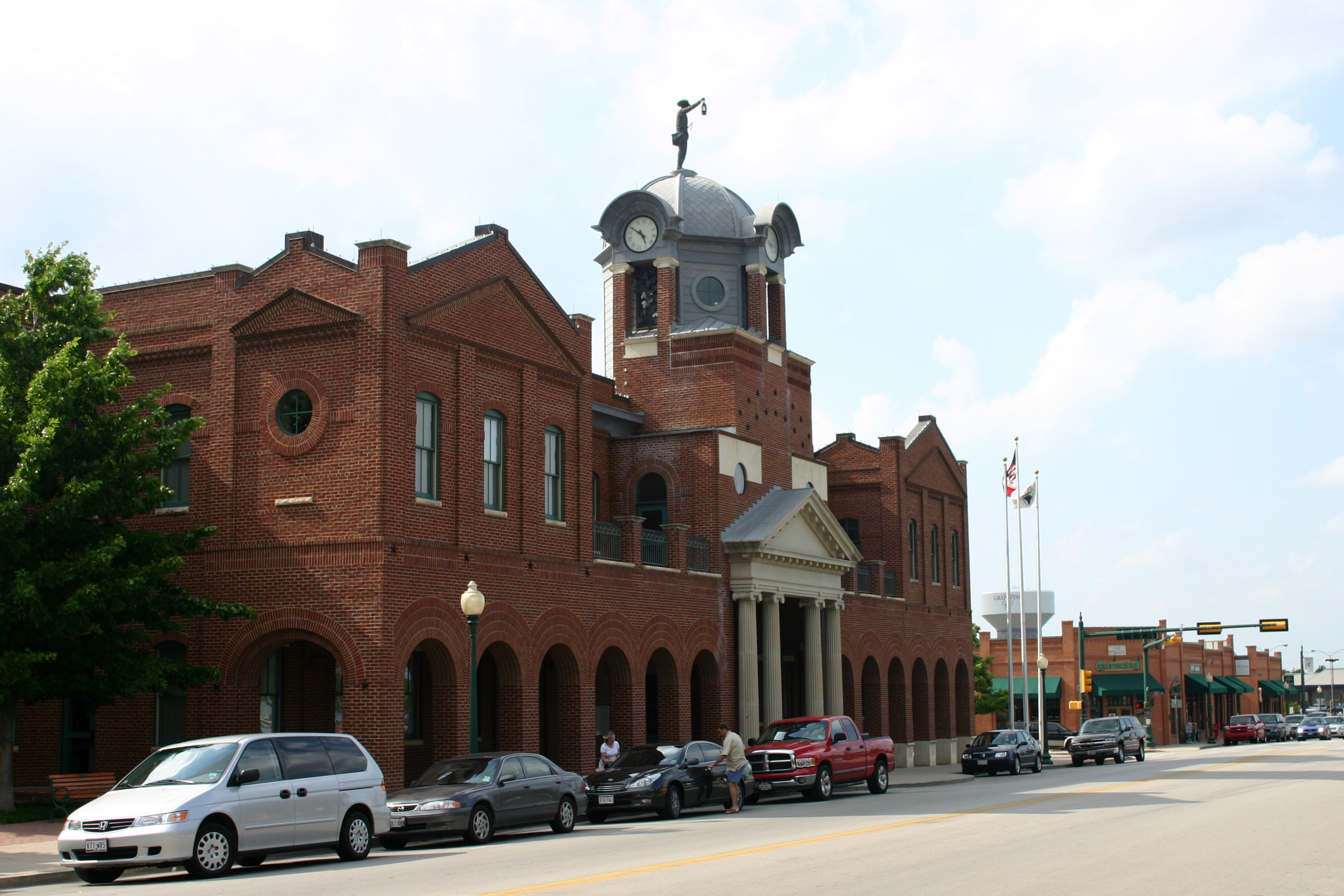 City Office on Main Street, Grapevine, Texas, USA